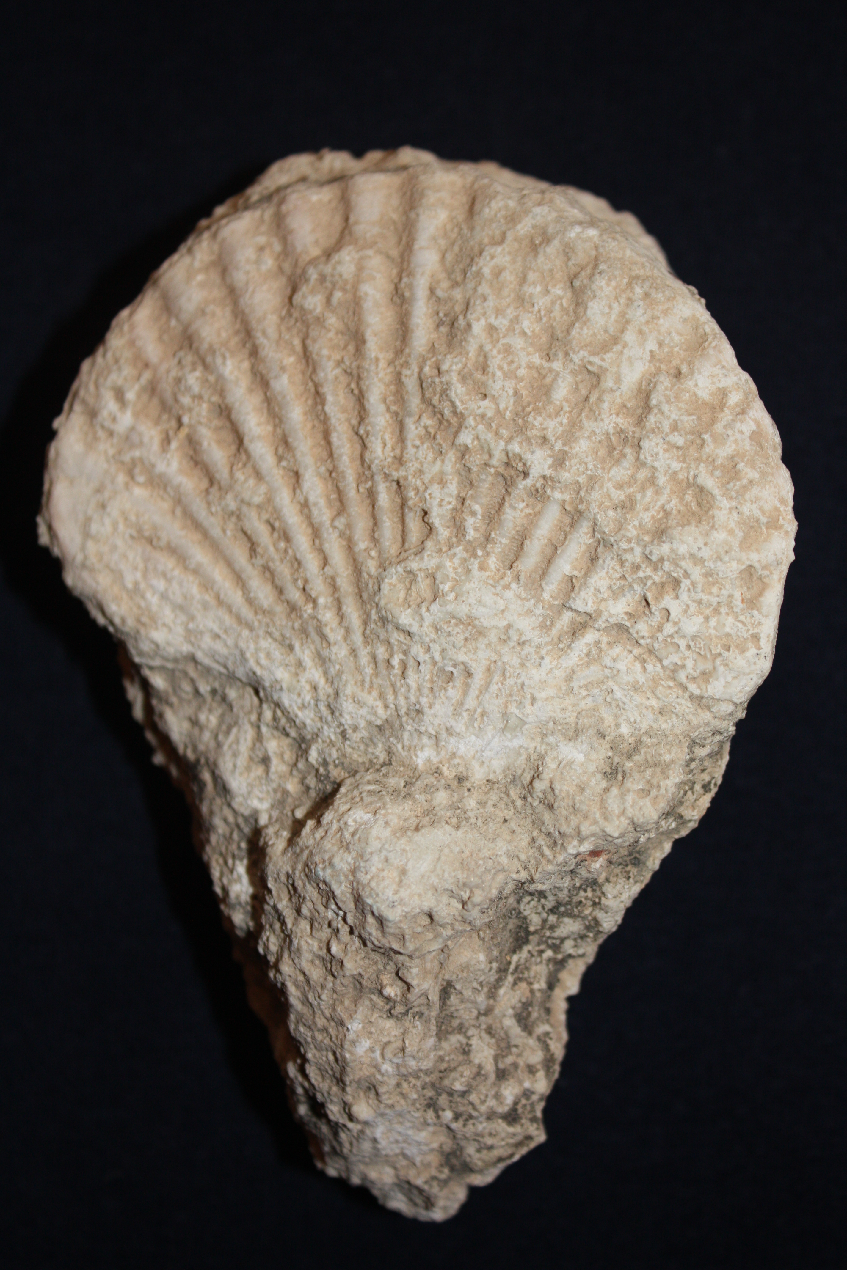 Fossil Seashell, found at the beach of Baucau, East Timor